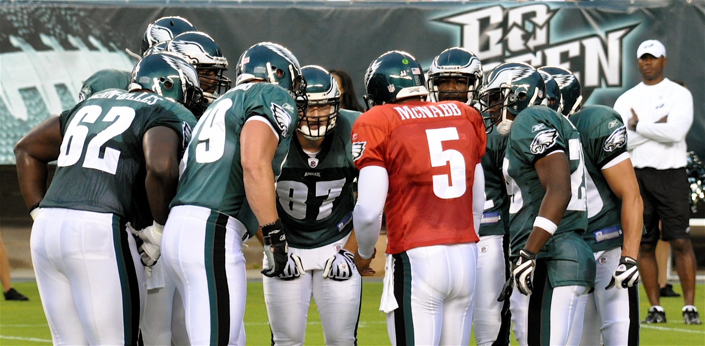 Donovan McNabb huddles with Philadelphia Eagles offensive linemen during the 2009 scrimmage.